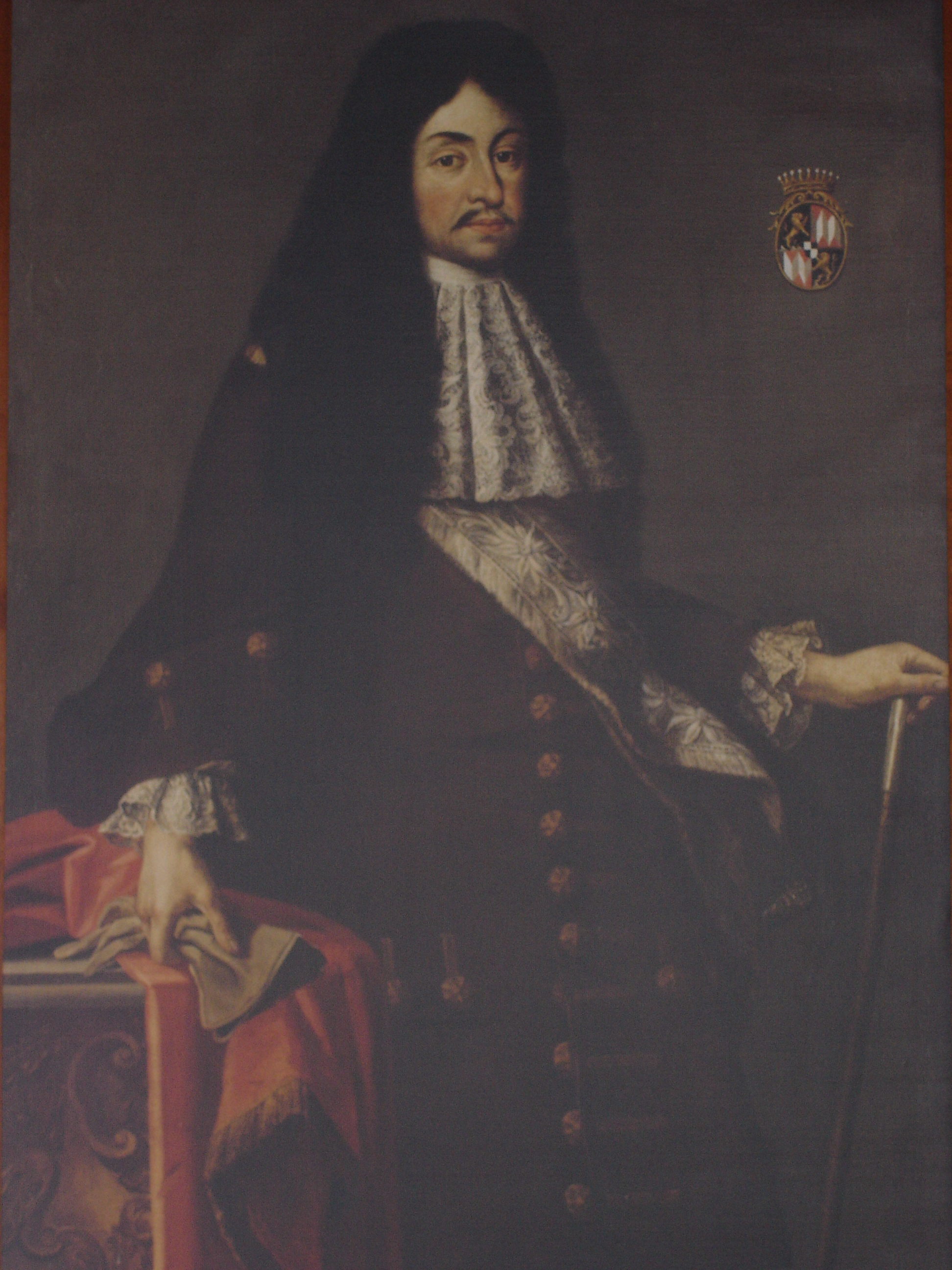 Portrait of the Count Sigmund of Welsperg.